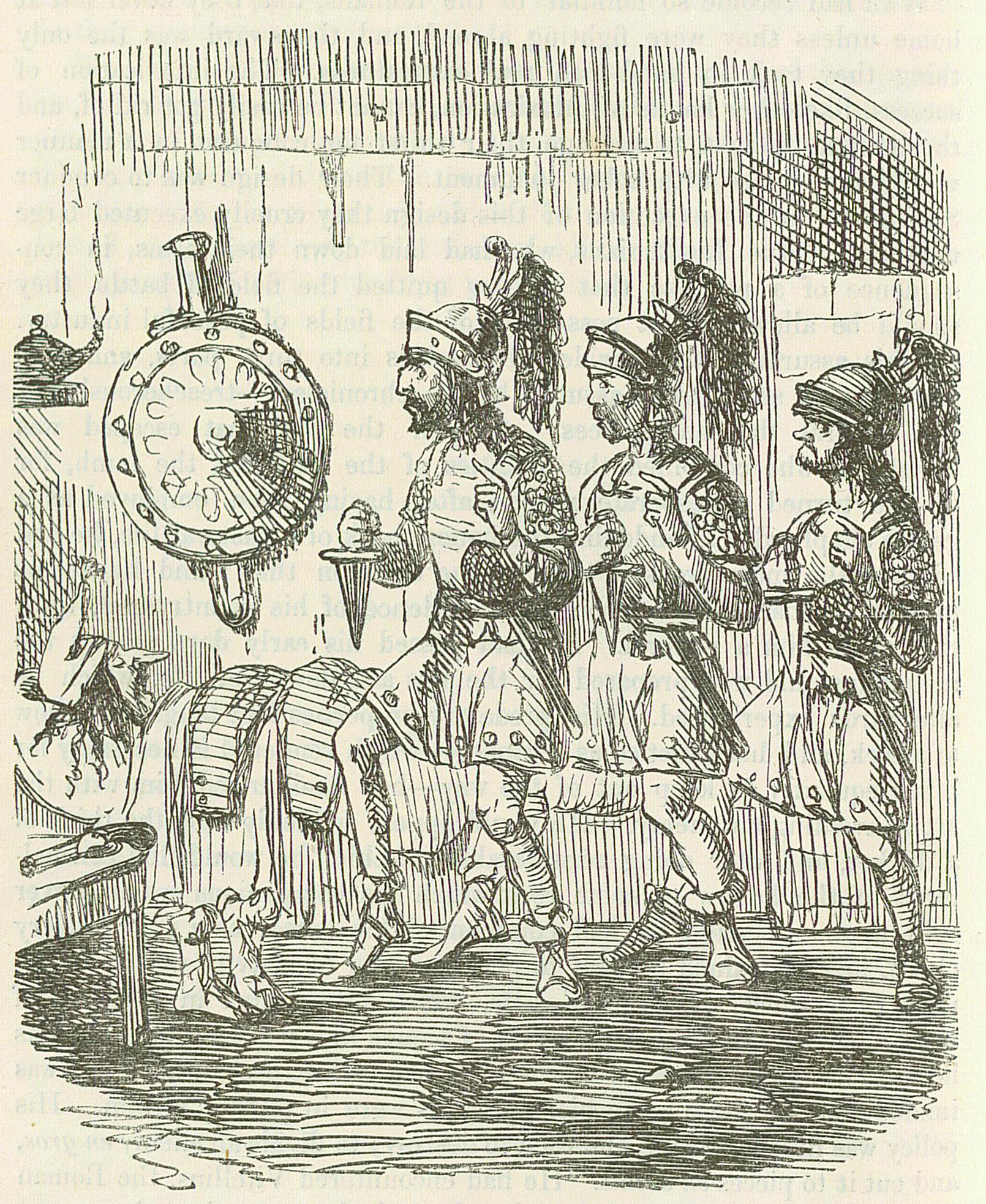 Image by John Leech, from: The Comic History of Rome by Gilbert Abbott A Beckett. Bradbury, Evans & Co, London, 1850s Assassination of Viriathus